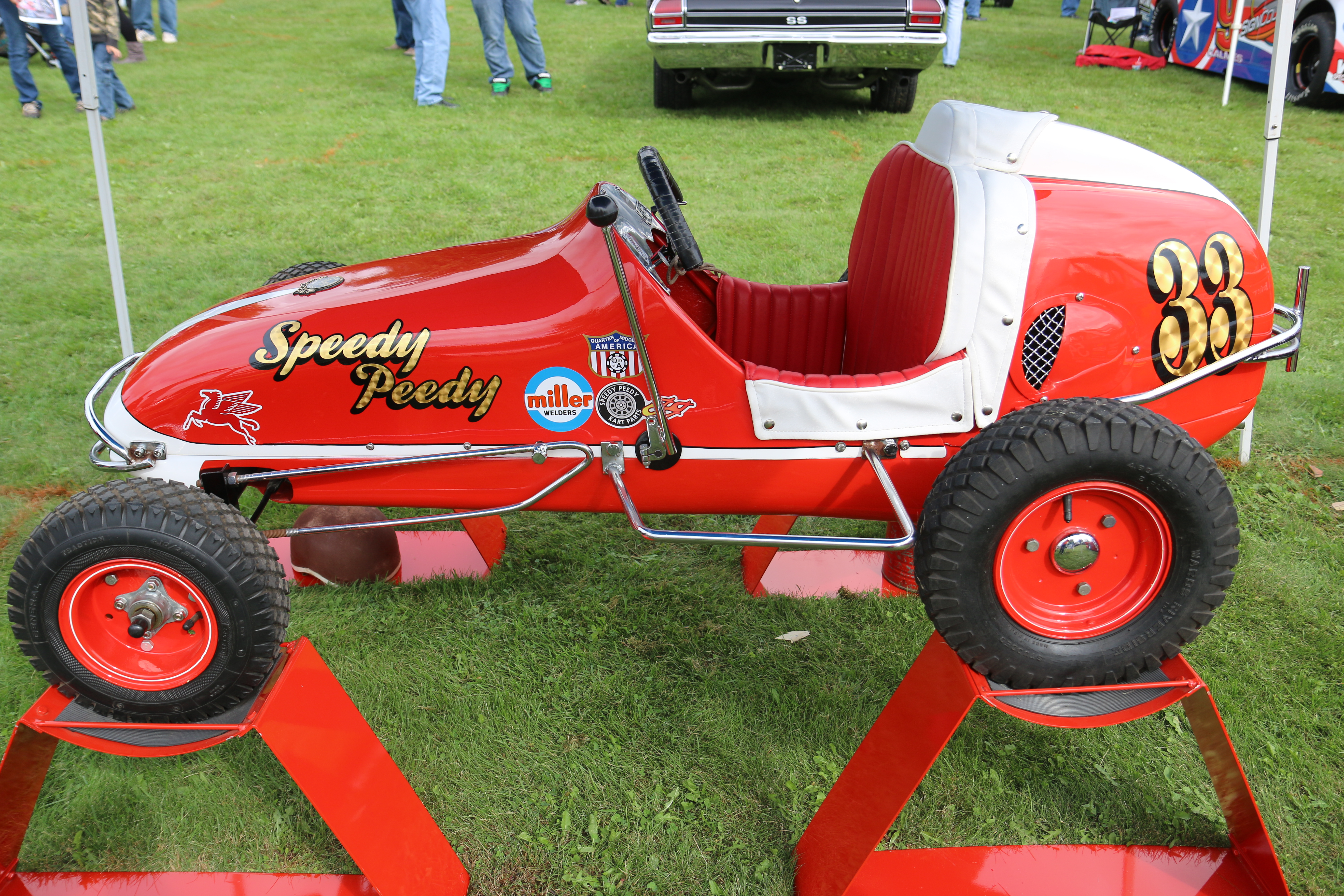 a 1956 Quarter Midget race car at the Freedom Area Historical Society exhibit “The Evolution of the Race Car”